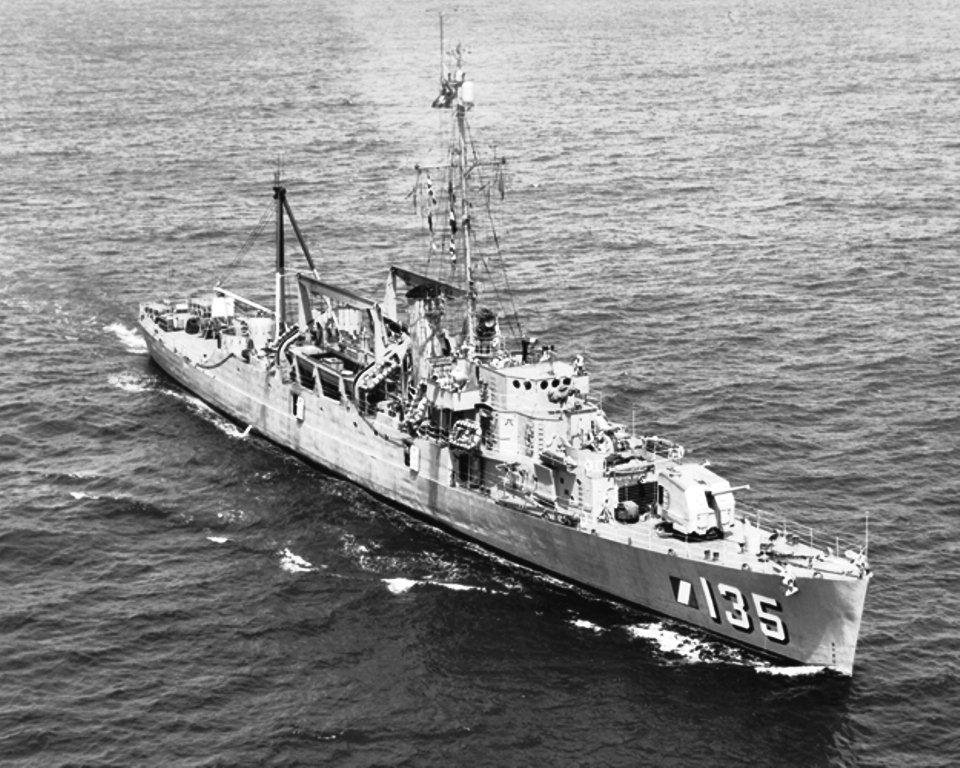 The U.S. Navy high-speed transport USS Weiss (APD-135) underway, circa in the later 1950s.